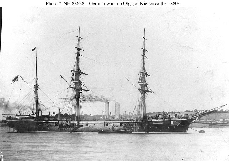 SMS Olga (German Corvette, 1881) Photographed at Kiel, Germany, by Arthur Renard, sometime prior to 1890. This view, which has been retouched to emphasize flags and smoke, may have been taken when Olga first entered service in 1881.